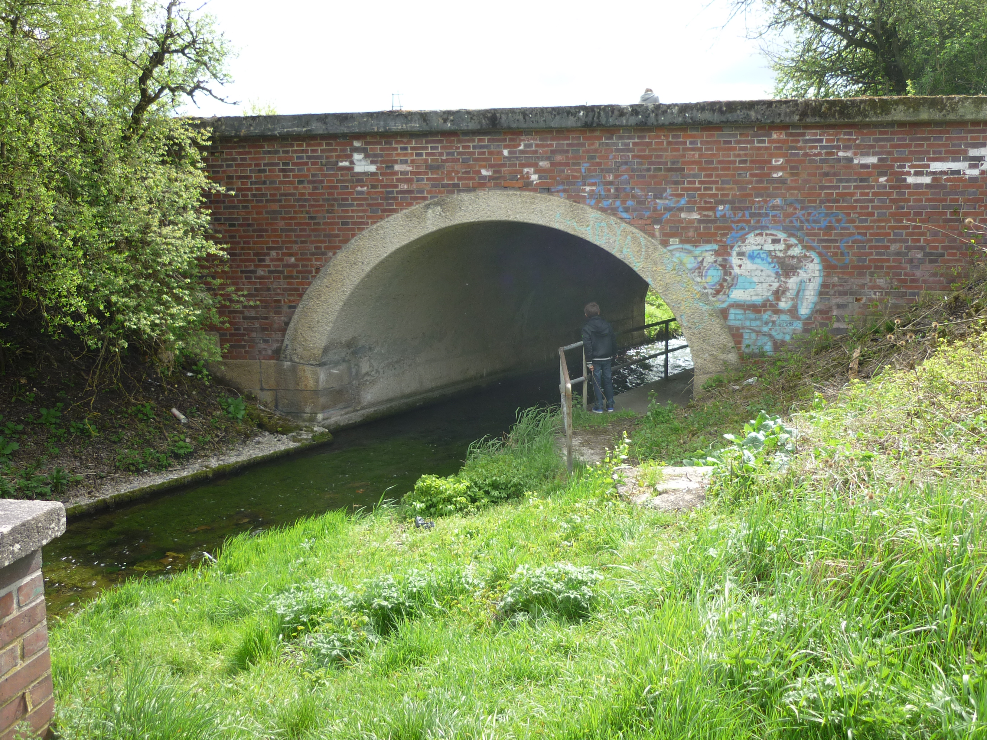 old railway bridge crossing Huellgraben drain, Munich (Germany)